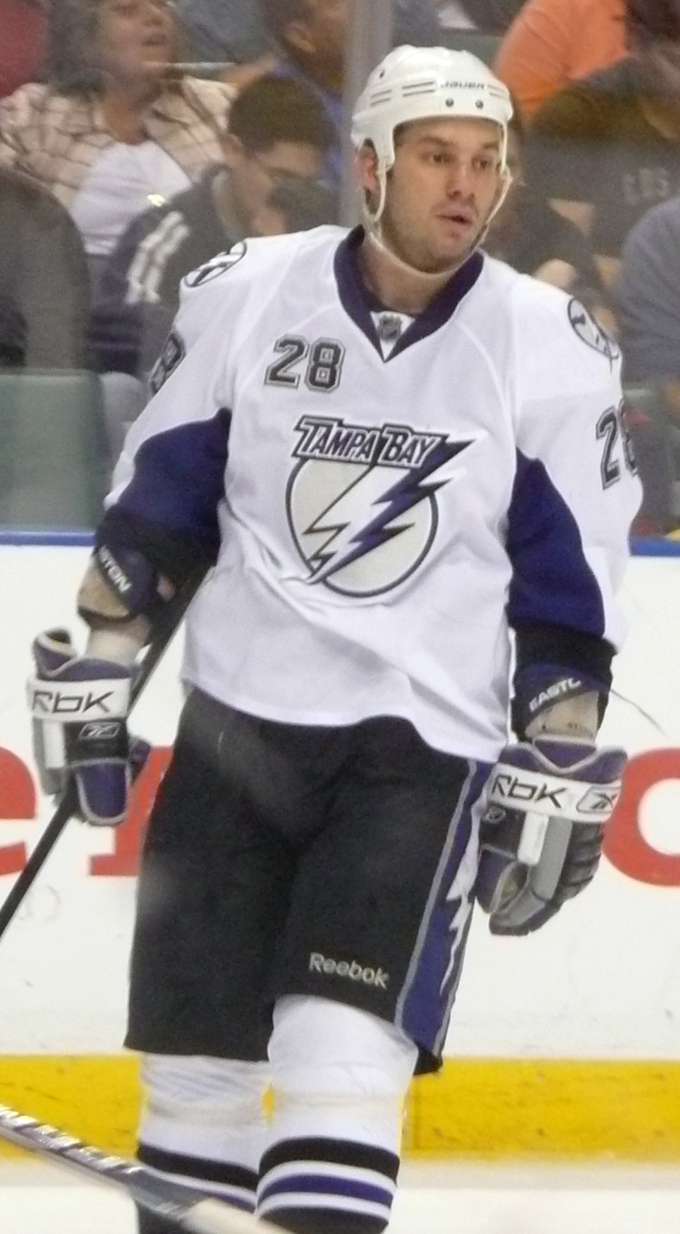 Zenon Konopka of the Tampa Bay Lightning during a game against the Florida Panthers in Sunrise, FL on 3/21/2010.